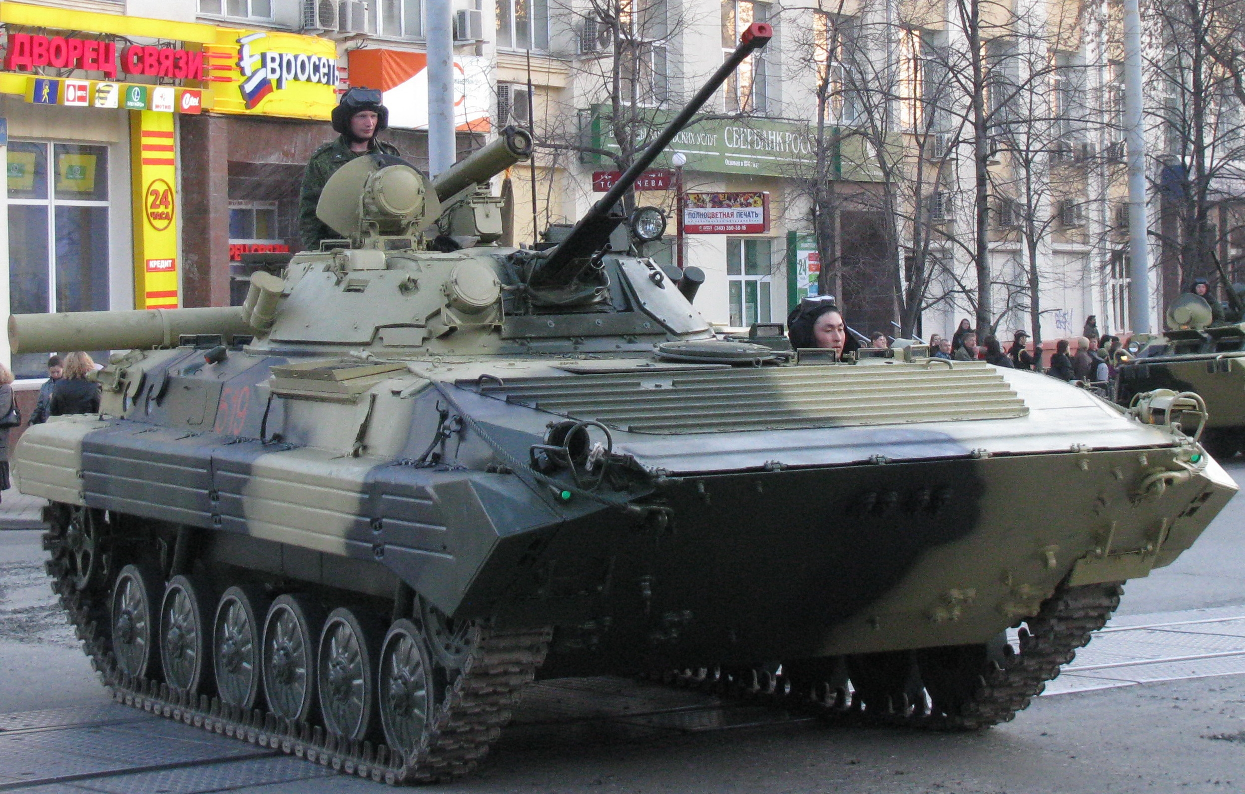 Russian BMP-2 during a rehearsal for the military parade, Yekaterinburg.